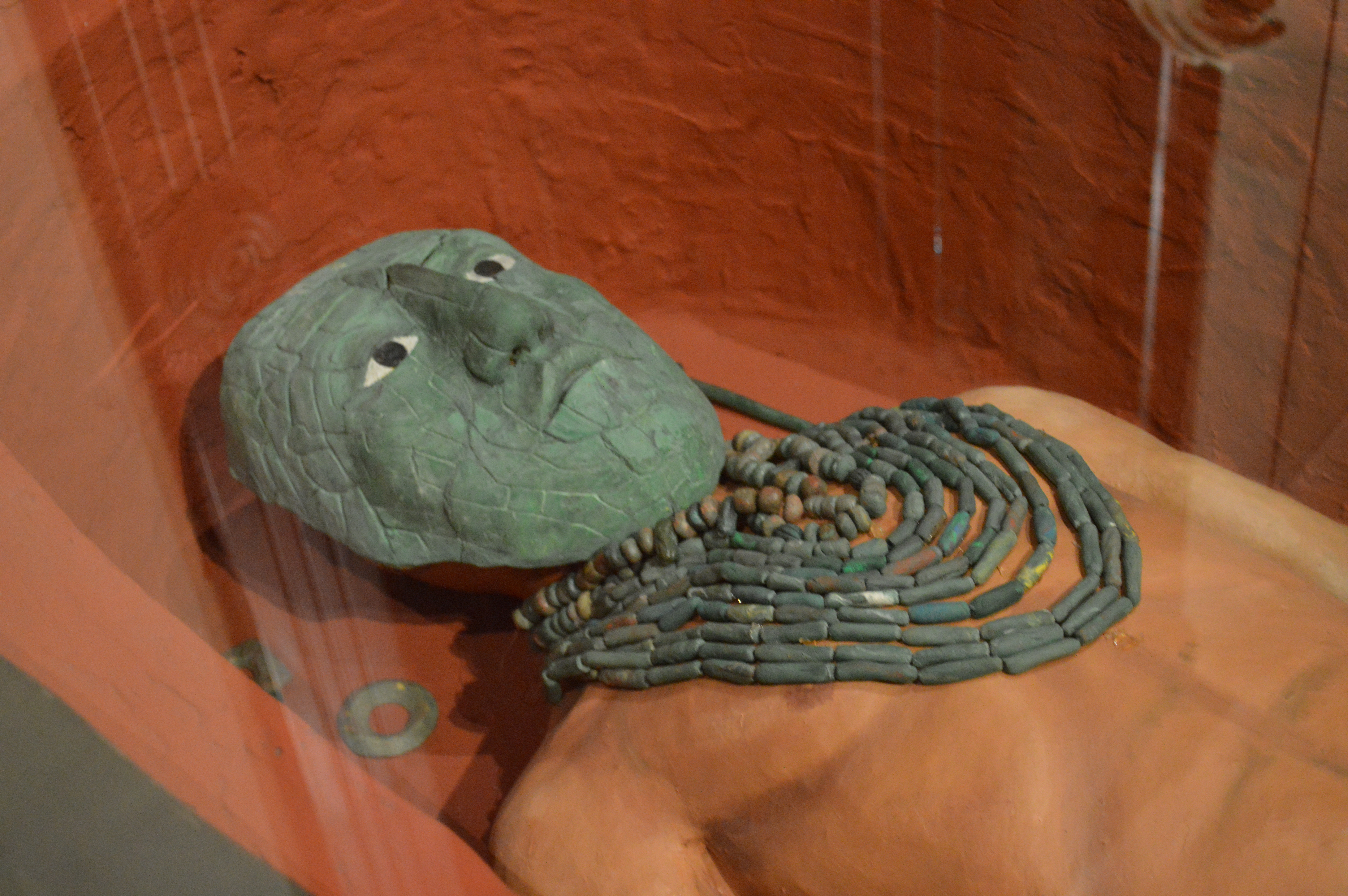 Replica of the funeral mask of Pakal at the Museo Nacional de la Máscara in San Luis Potosí, Mexico